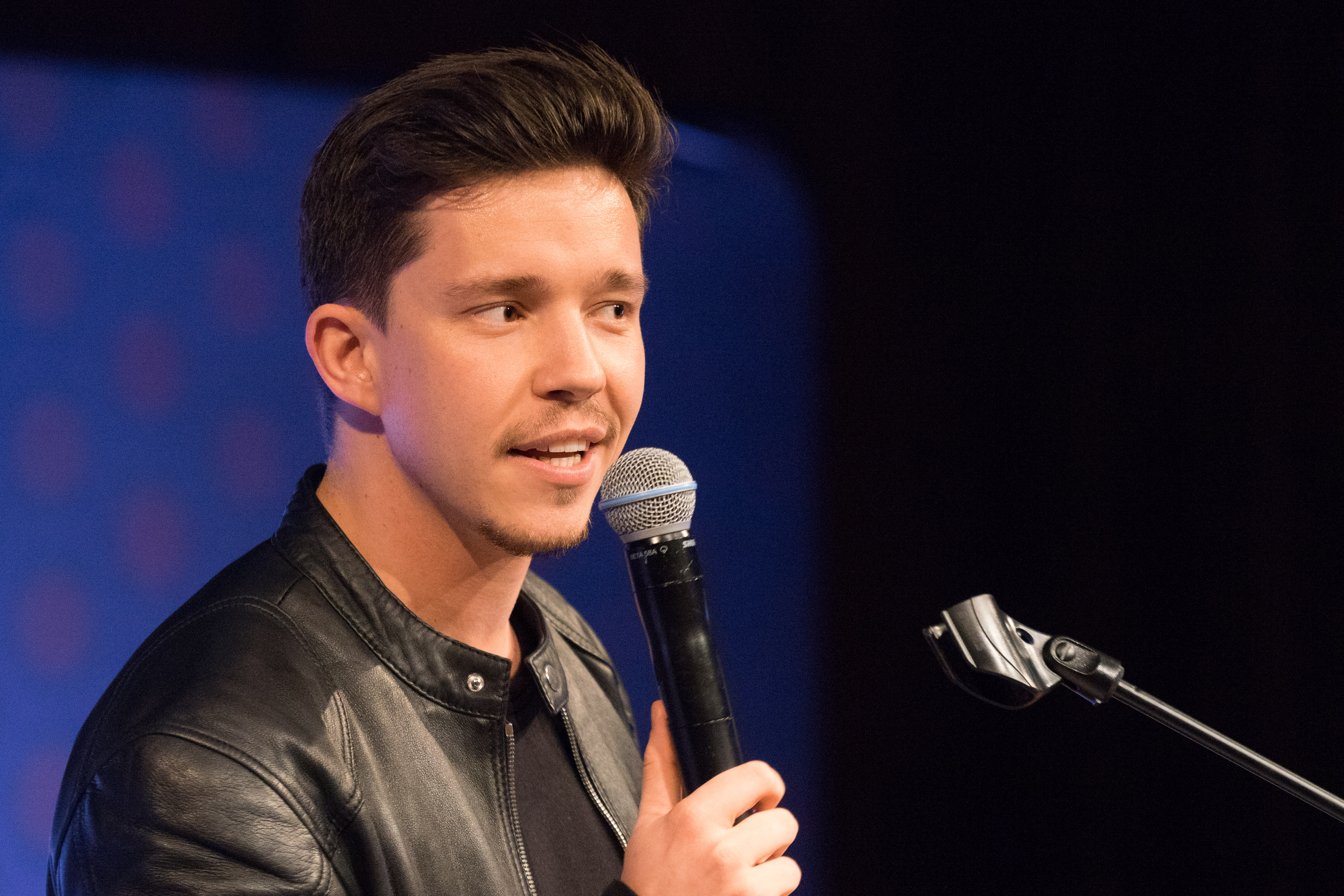 Nico Santos performing at an event hosted by Radio Pilatus in March 2018